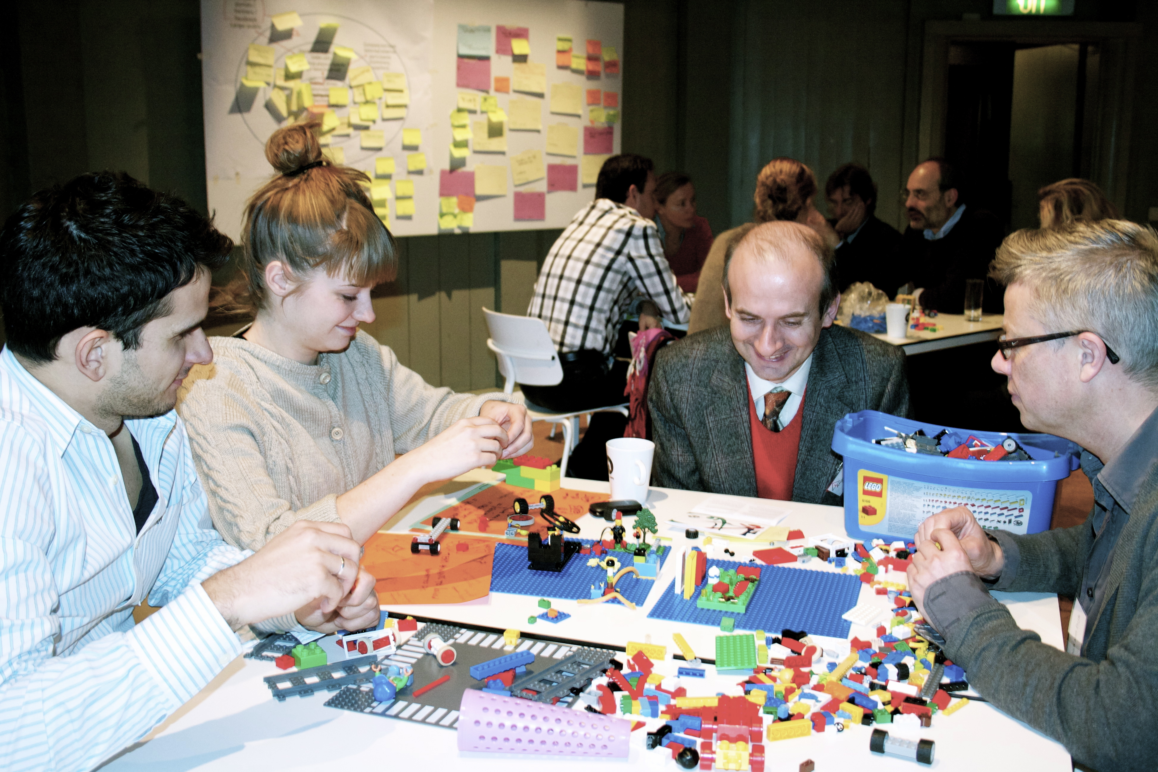 Gamification techniques picture